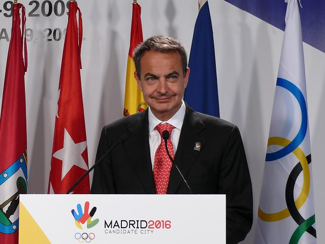 Spain's Prime Minister Jose Luis Rodriguez Zapatero told a press conference he was "reasonably hopeful" of Madrid's chances in the race for the 2016 Olympics. (ATR / Panasonic:Lumix)